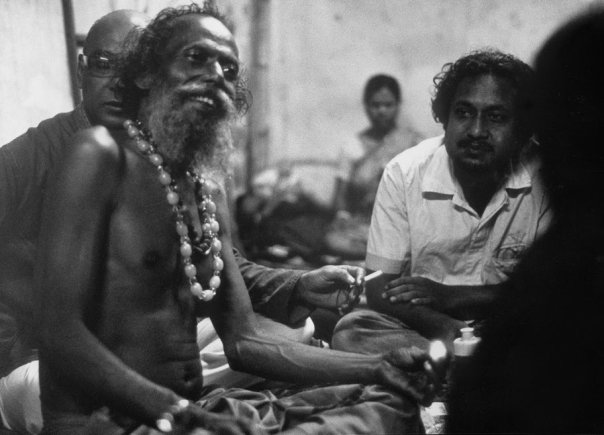 portrait